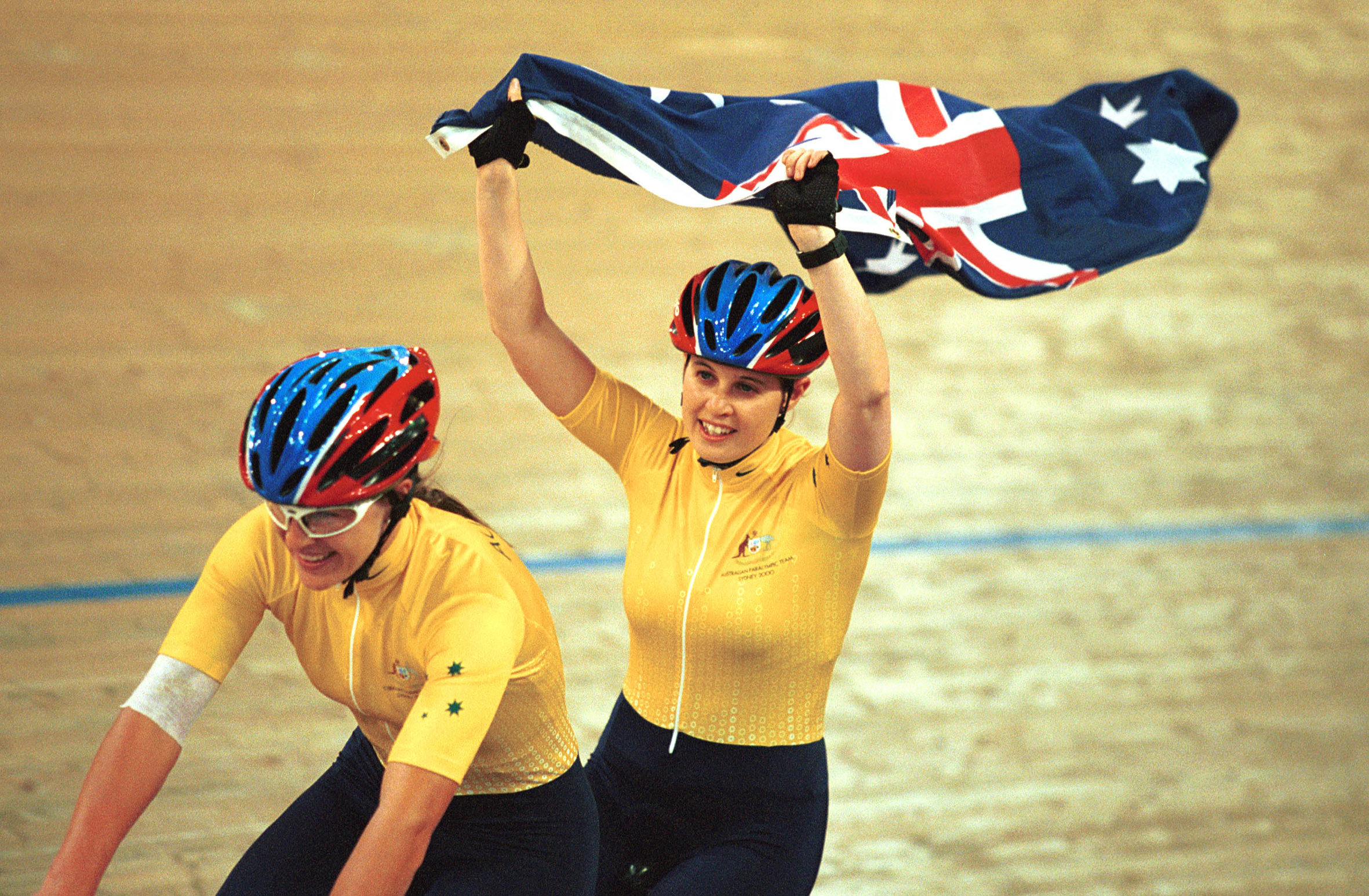 Australian track cyclists Tania Modra (pilot) and Sarnya Parker wave the Australian flag at the 2000 Sydney Paralympic Games Women's Tandem Individual Pursuit Open. They won gold in this event.